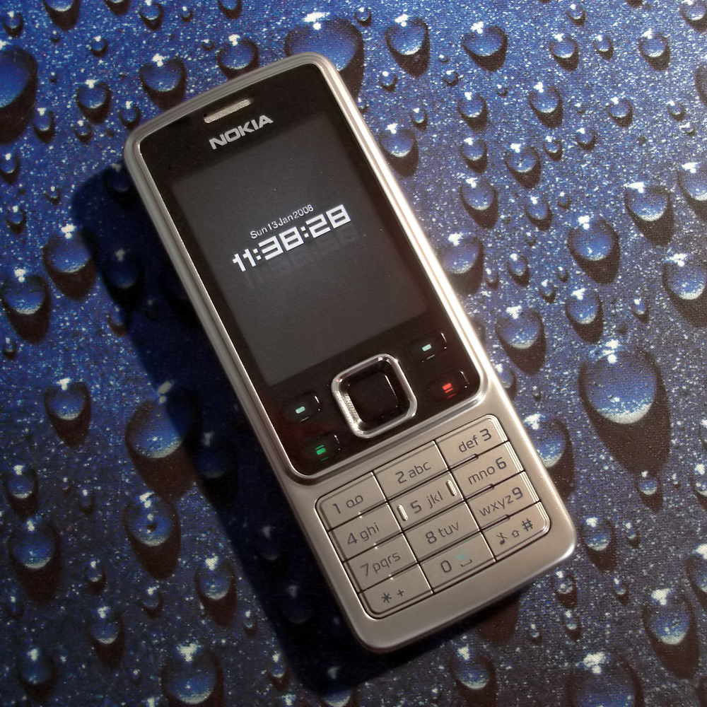 Image of the North American version of Nokia 6300